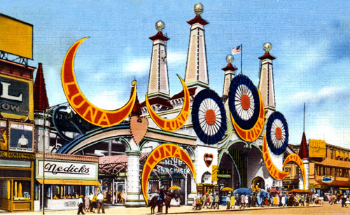 Vintage postcard image depicting entrance to Luna Park, Coney Island.